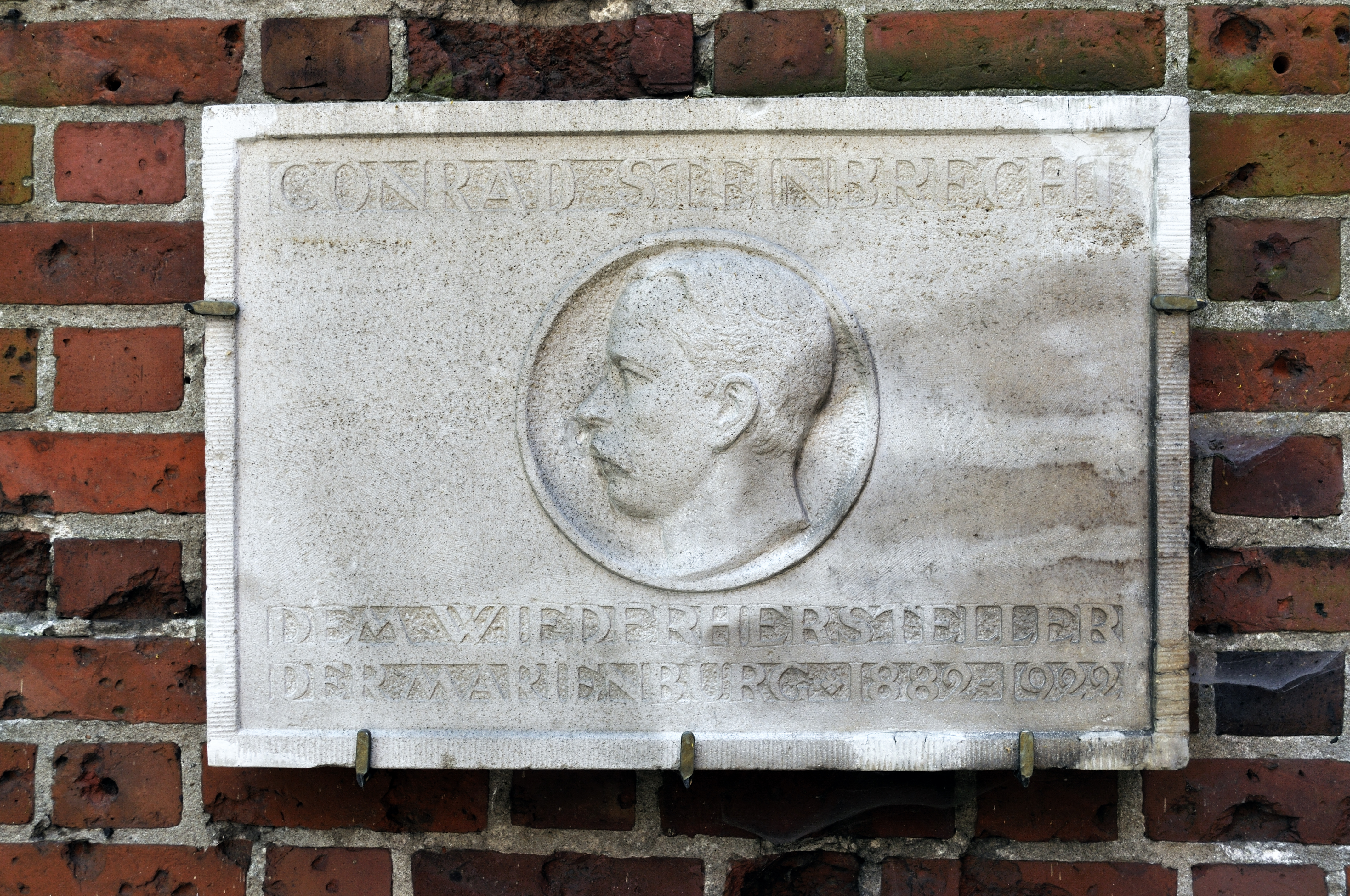 Picture taken in Malborg after Wikimania 2010 conference.